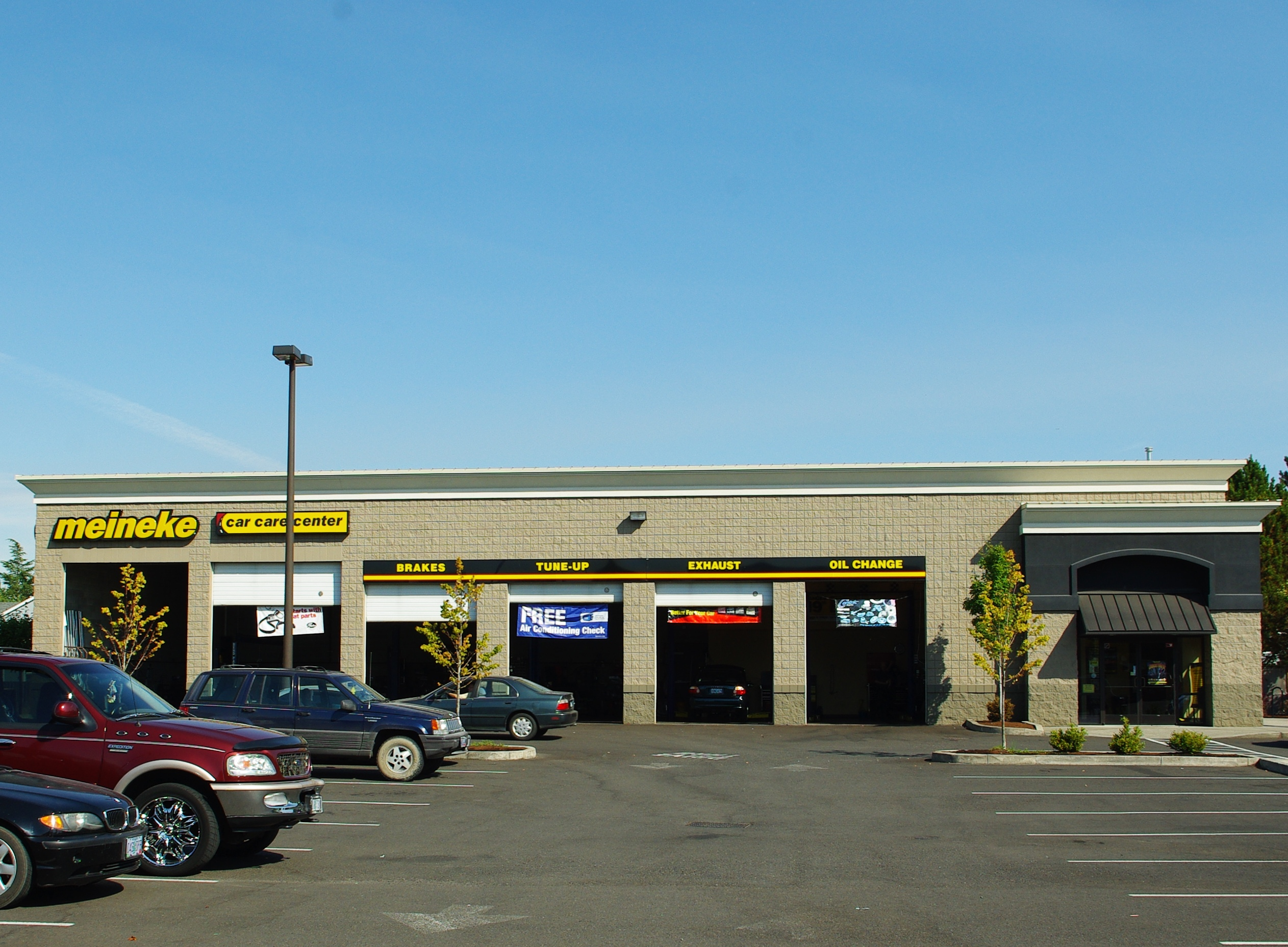 Meineke Car Care Center on TV Highway in Hillsboro, Oregon.